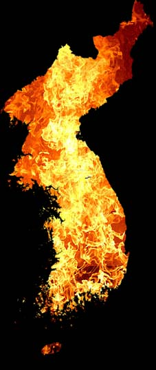 Hell korea. Composed with File: photo essay 081029-A-7797A-028.jpg and File:Map of Korea blank.svg